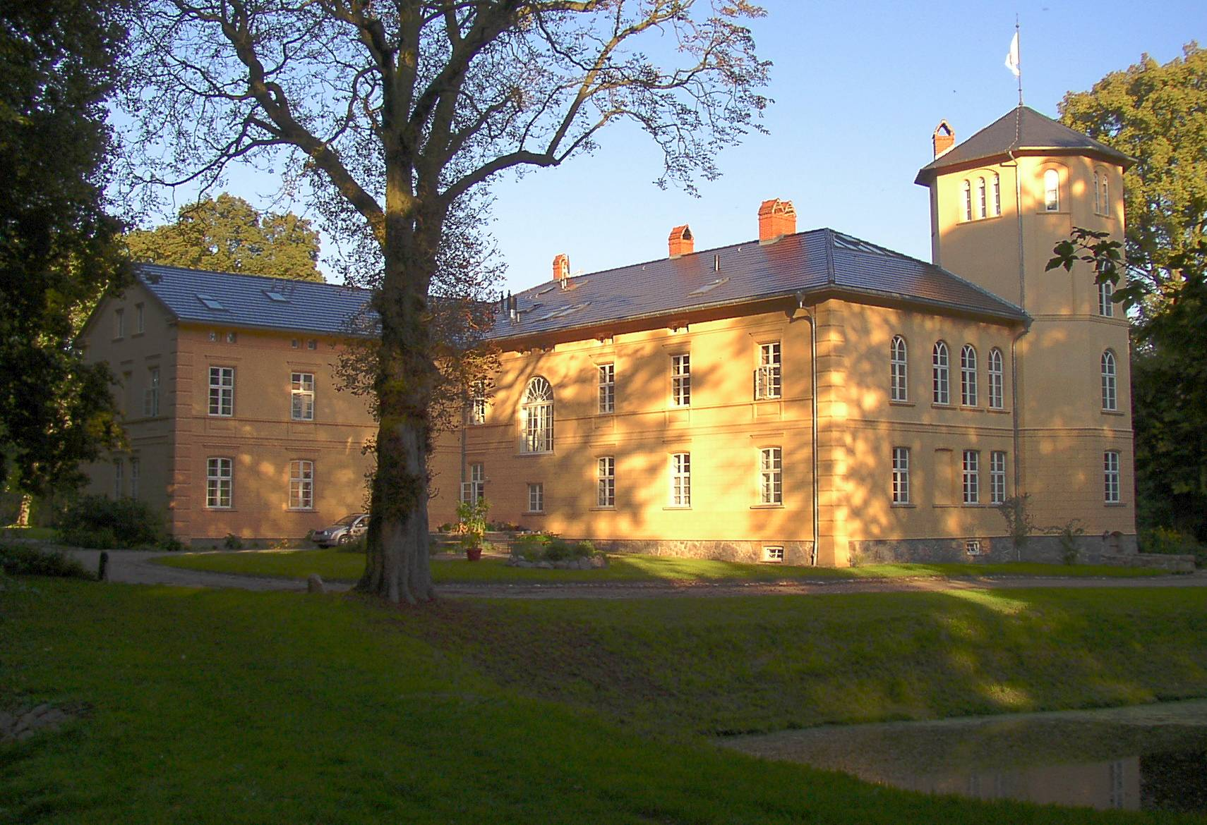 Castle in Dettmannsdorf-Kölzow in Mecklenburg-Western Pomerania, Germany